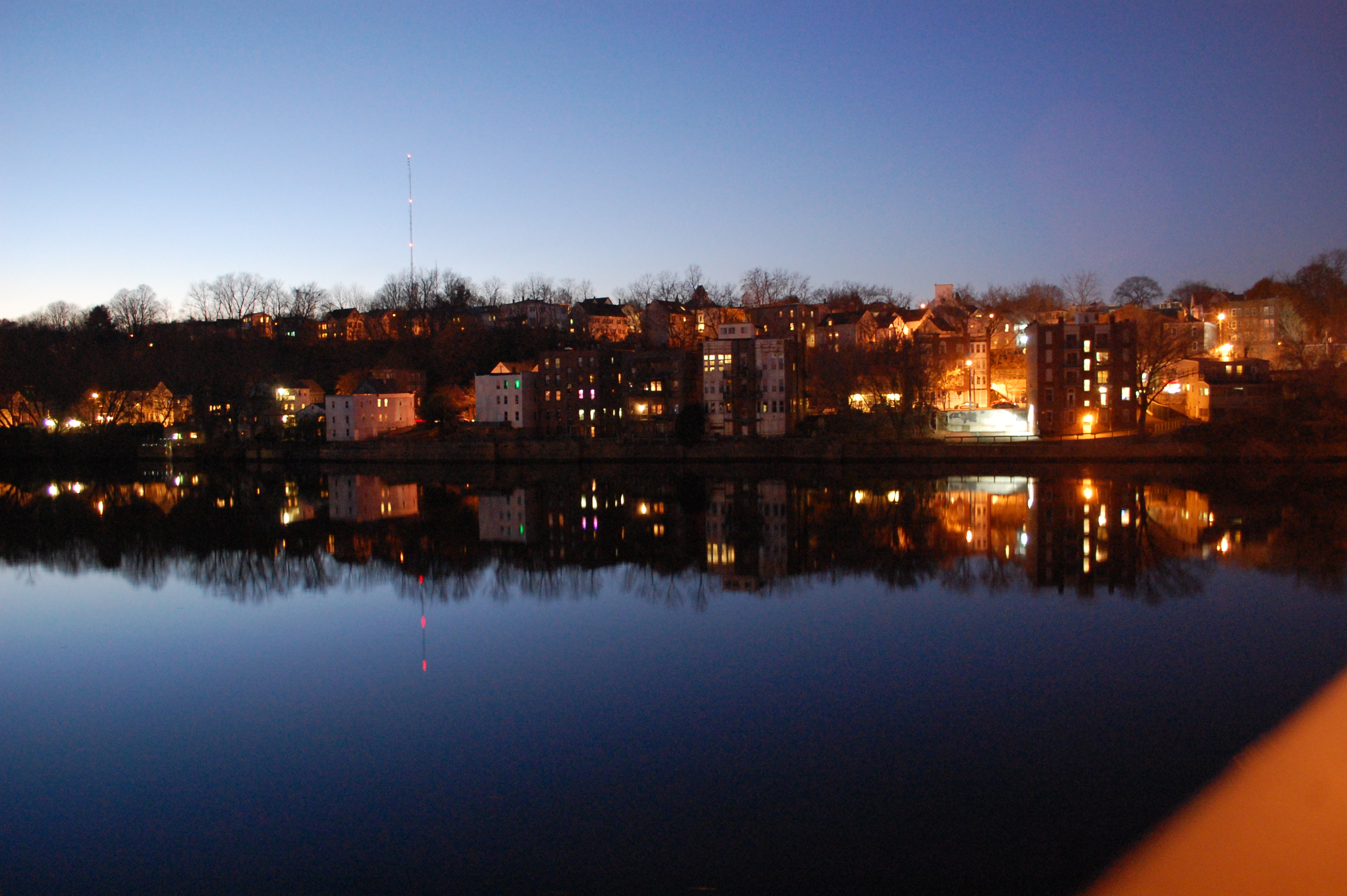 Haverhill, Massachusetts downtown (River Street) pictured at dusk from the Comeau Bridge over the Merrimack River